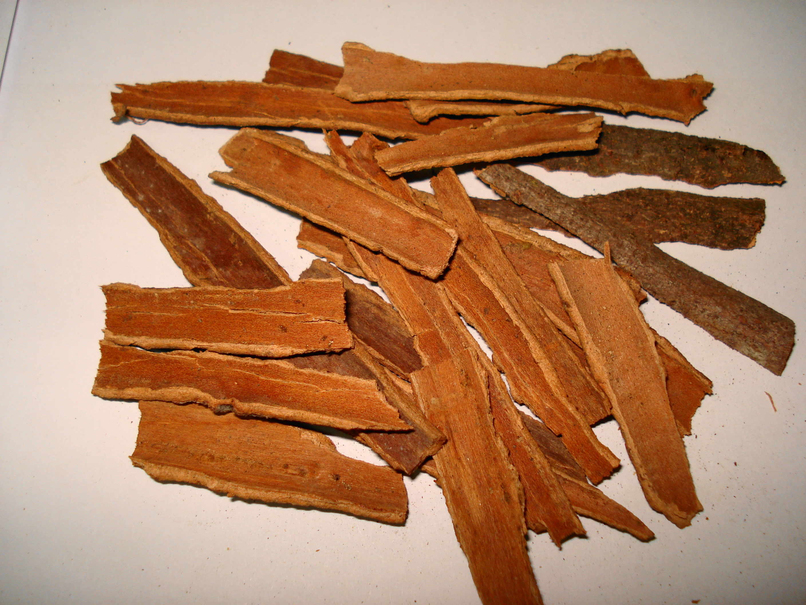 dar chenni